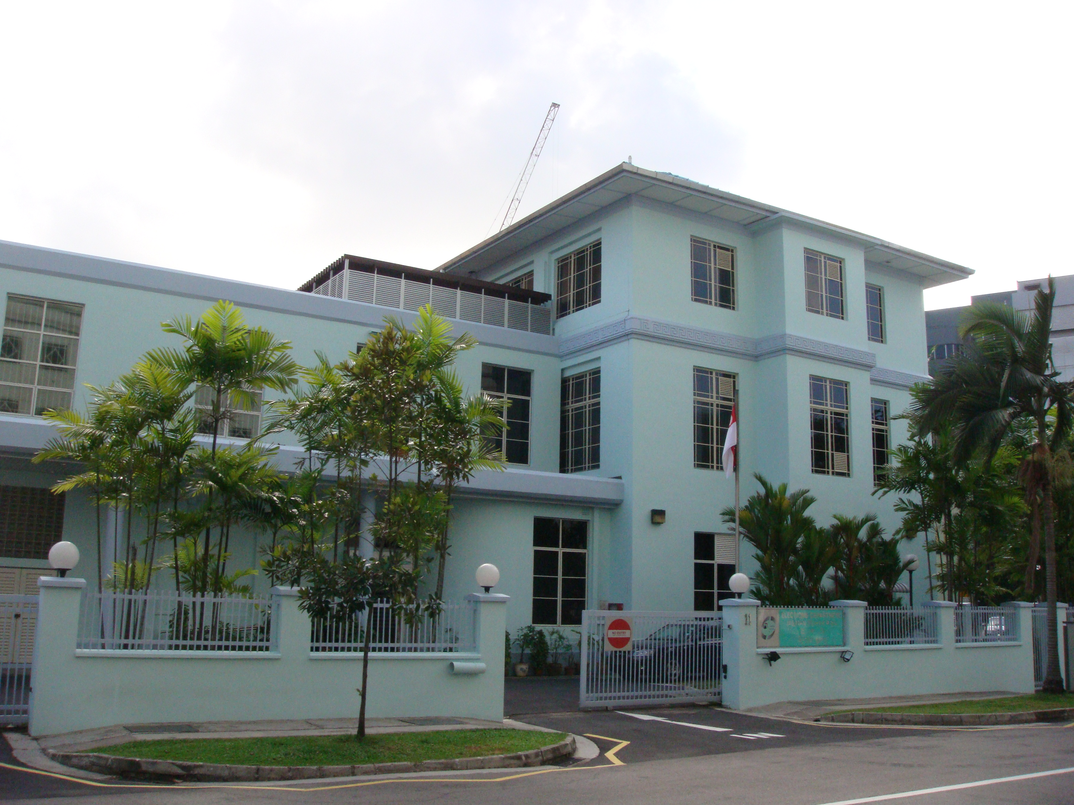 Singapore Elections Department at Prinsep Link, Singapore.